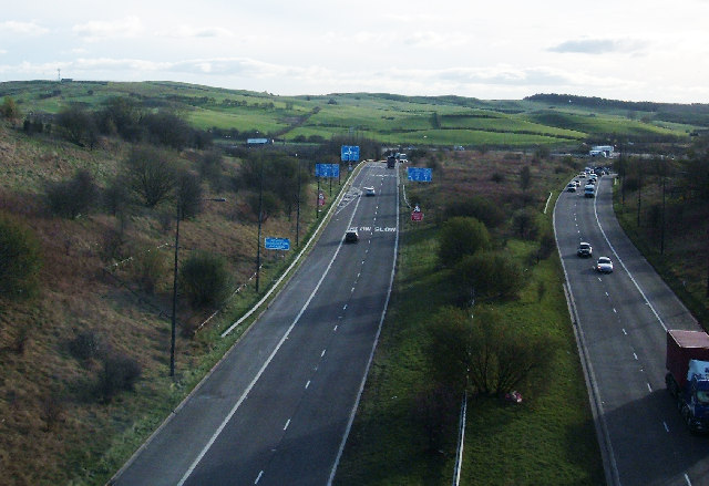 A627M motorway, Rochdale View SE from a footpath overbridge at SD893105 looking towards the A627M's junction with the M62.